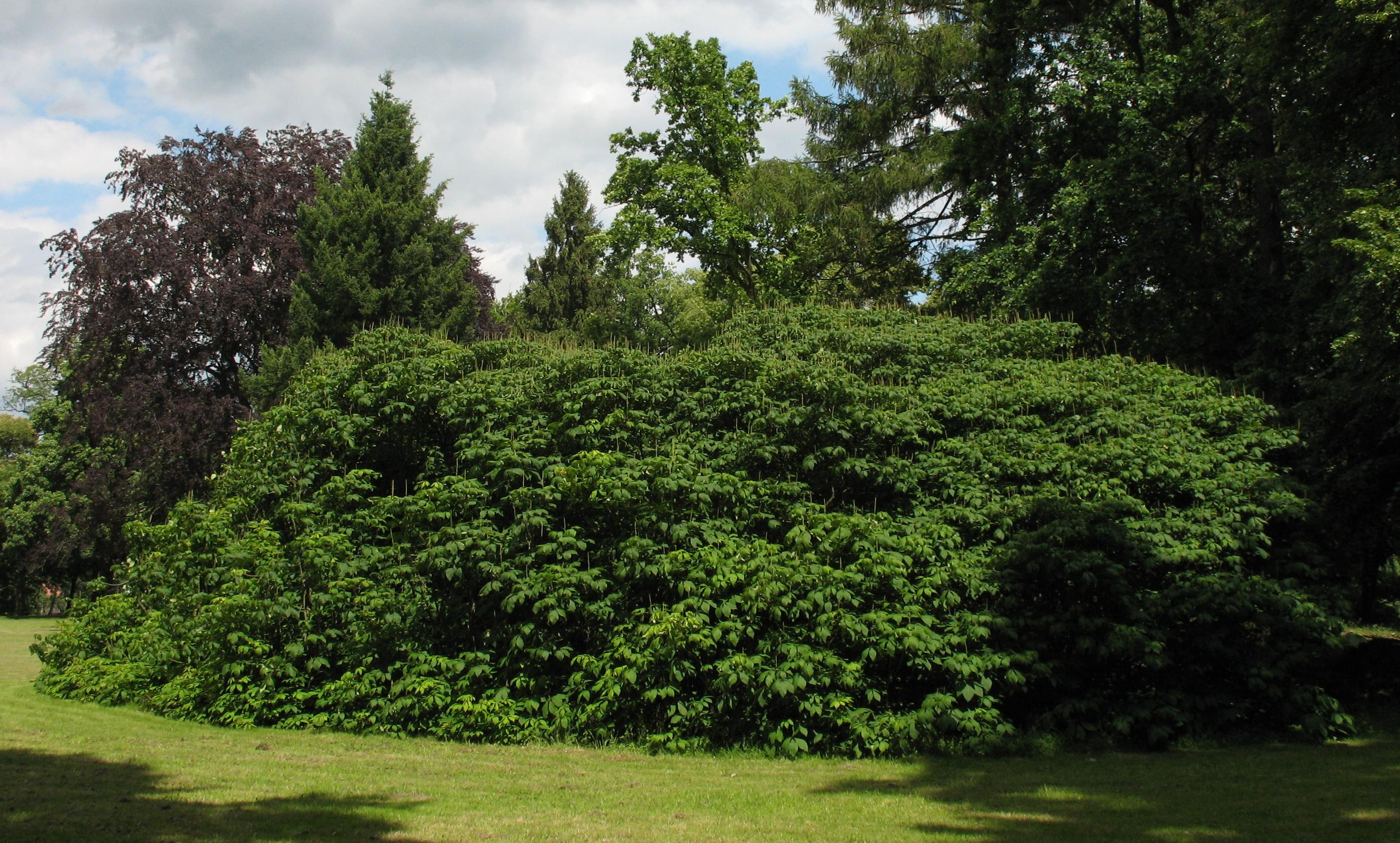 Bottlebrush buckeye in the palace garden in Bad Schmiedeberg-Reinharz in Saxony-Anhalt, Germany